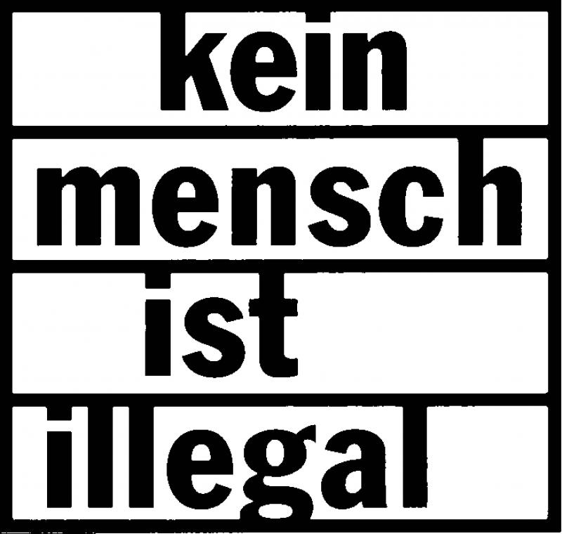 Logo no one is illegal